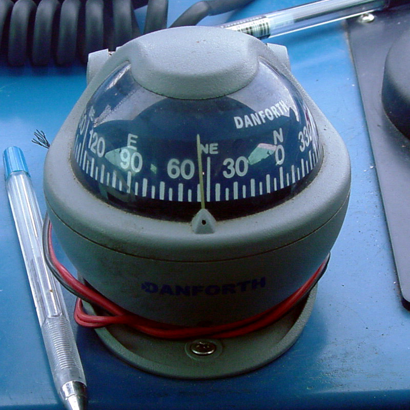 A surface mount compass on a boat 中文（香港）: 一枚在船隻上的平鑲式指南針